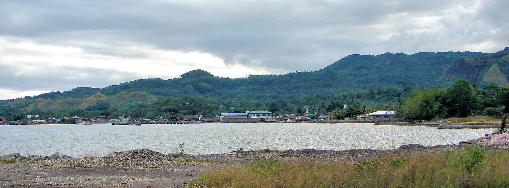 Jagna, Bohol, the Philippines